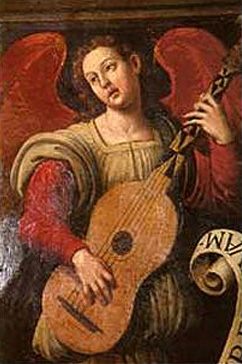 Detail of a bass-vihuela, from a mid-16th century Spanish painting Caption quoted from Vihuela: "Error: No text given for quotation (or equals sign used in the actual argument to an unnamed parameter)"